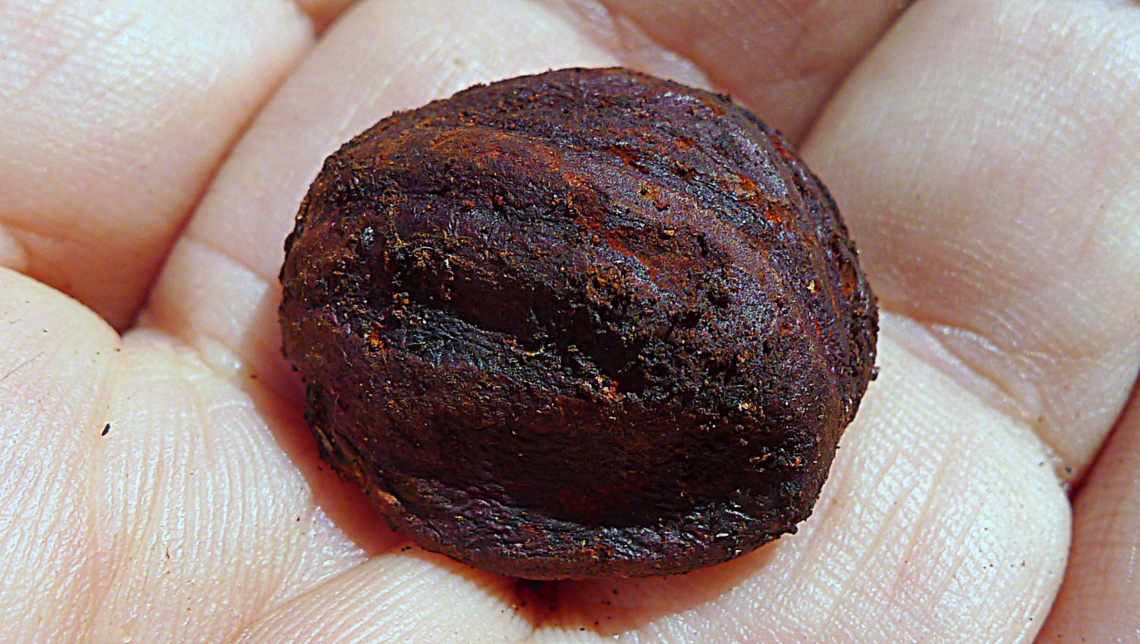 Eschweilera sp., Lecythidaceae, Atlantic forest, northern littoral of Bahia, Brazil